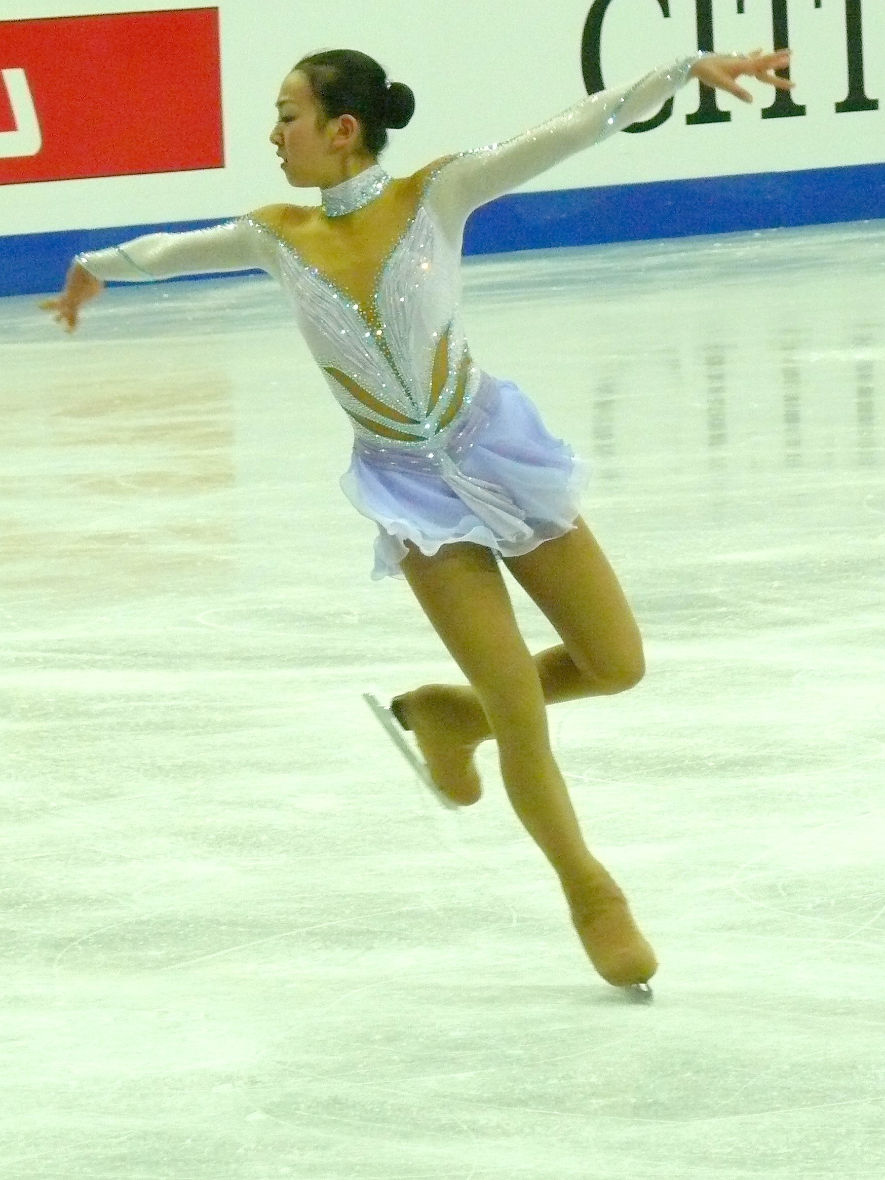 Mao Asada (JPN) at her short program at the World Championships 2008 in Figure Skating in Göteborg (SWE)